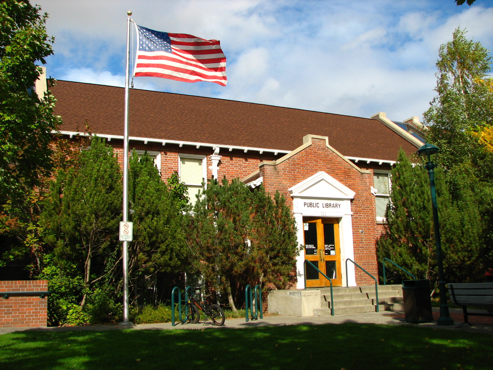 The Goldendale Free Public Library, located in Goldendale, Washington, United States, is listed on the US National Register of Historic Places. It remains in use as Goldendale's public library. This photo shows only the historic central section of the current library building; two non-historic wings have been added to the right and left (as shown in this picture) of the historic building.